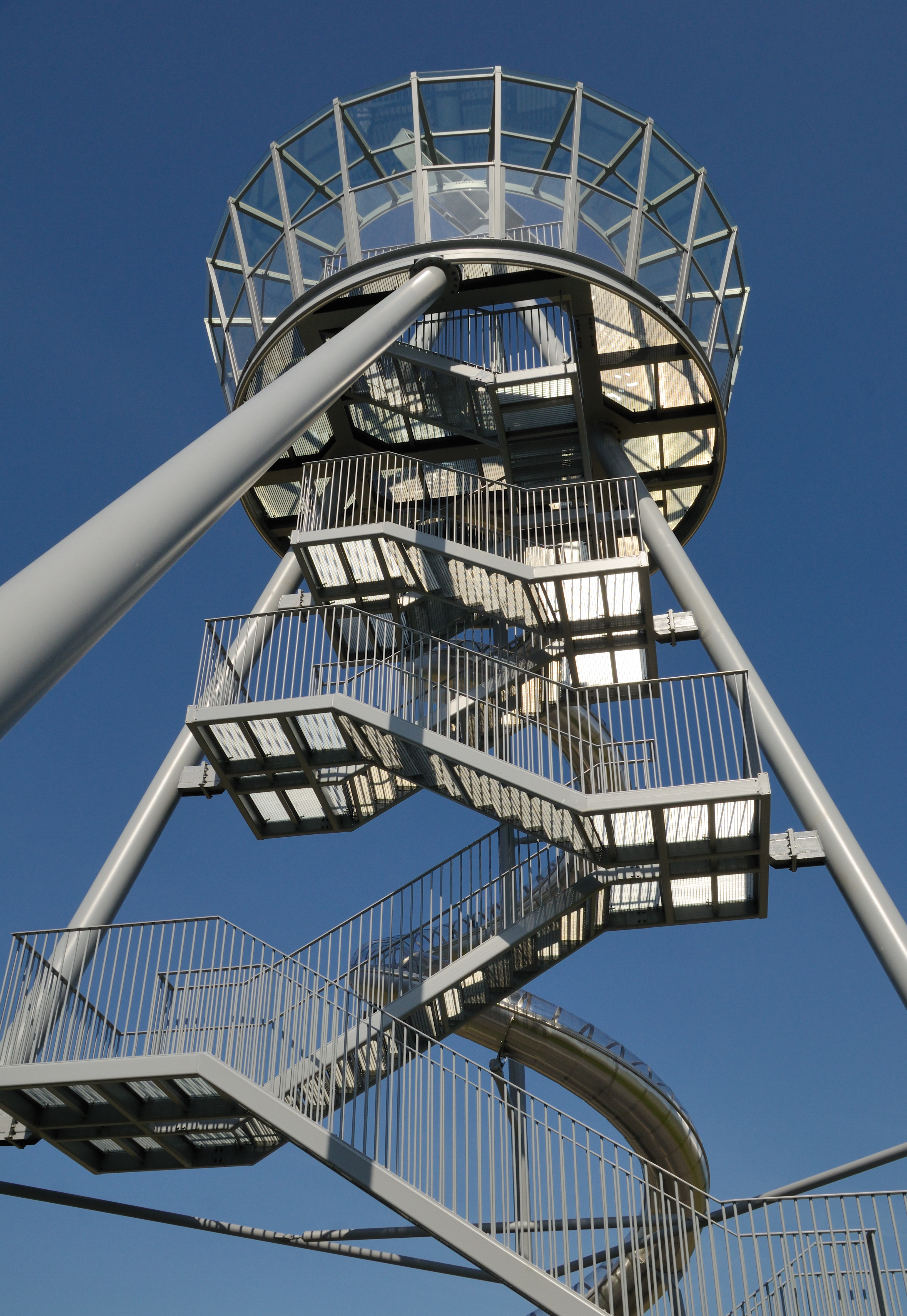 Vitra Slide Tower